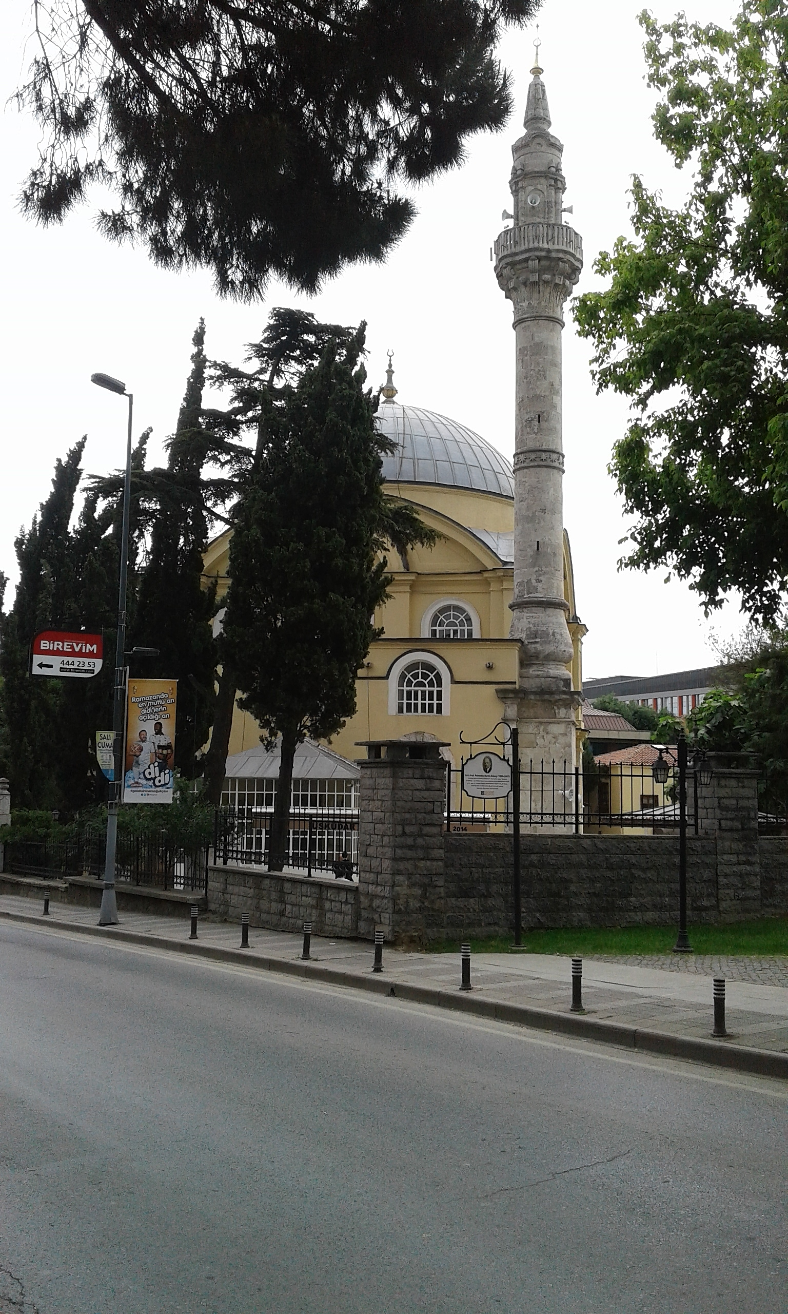 Altunizade Mosque, also known as İsmail Zühtü Pasha Mosque, at Altunizade neighborhood of Üsküdar district in Istanbul, Turkey